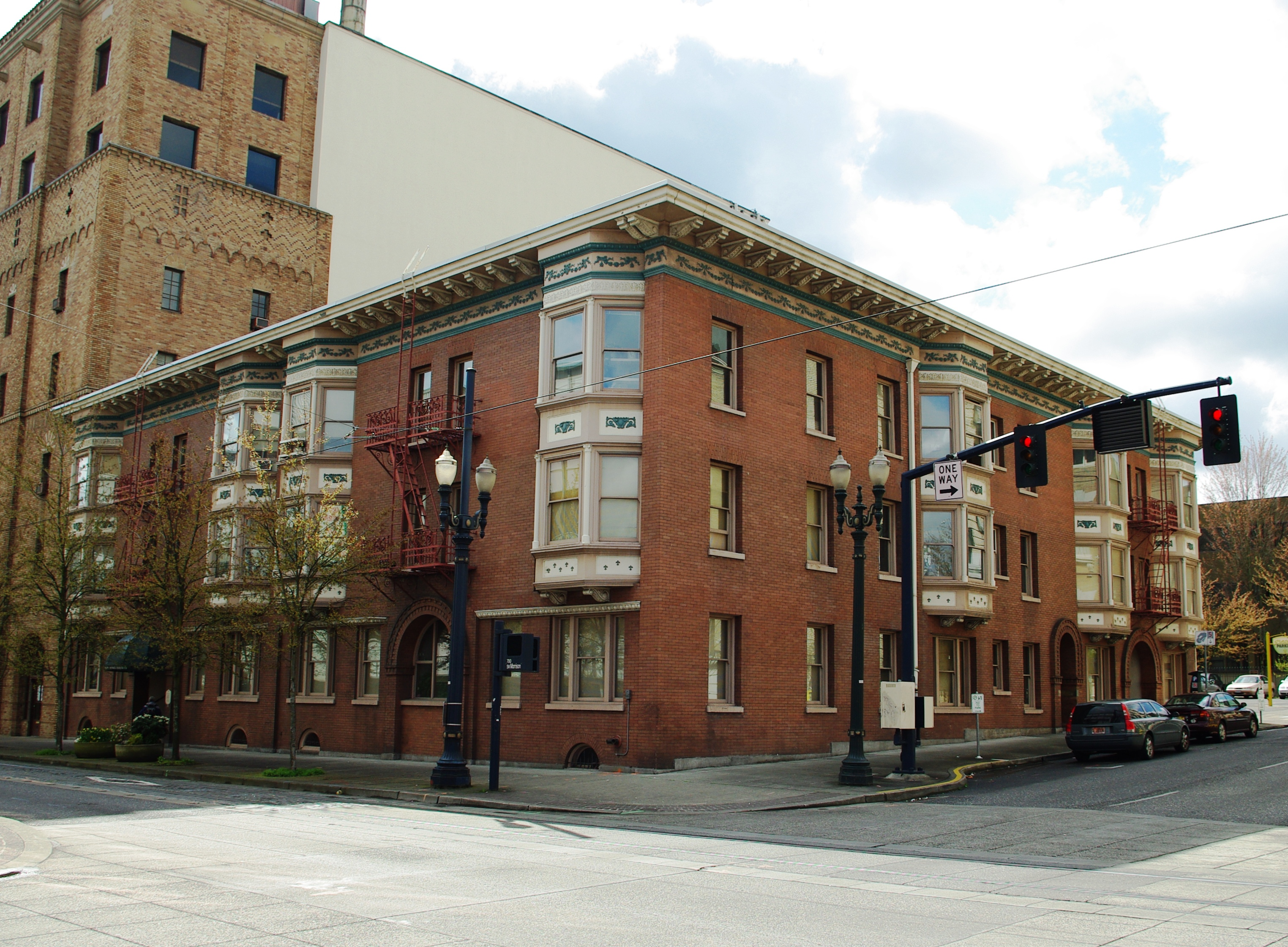 Bronaugh Apartments at 1434 Southwest Morrison Street in Portland, Oregon.